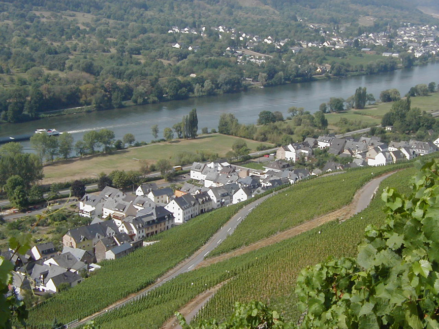 Vineyards in the German wine region of the Mosel Valley